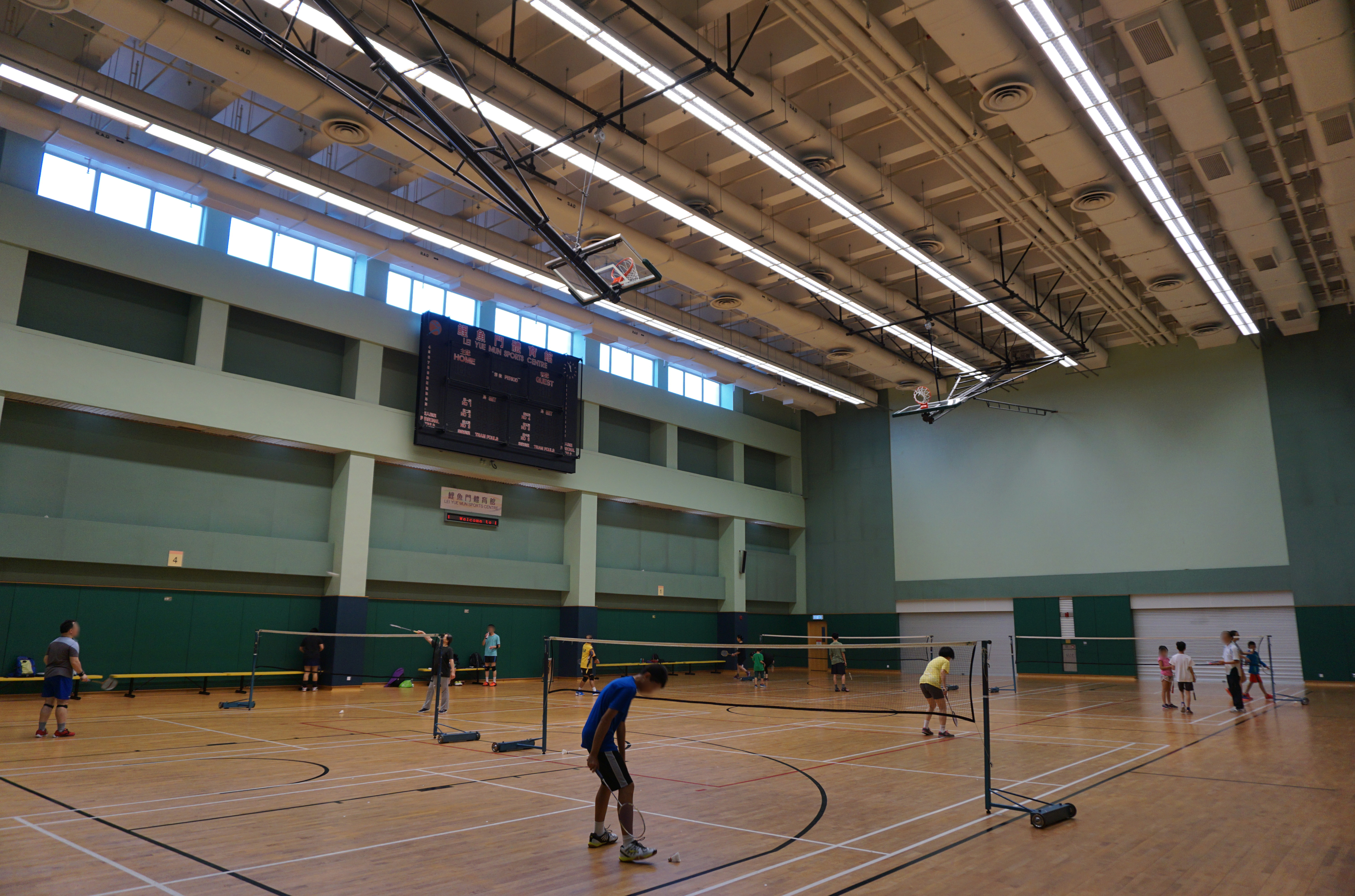 Lei Yue Mun Sports Centre in Yau Tong, Hong Kong.